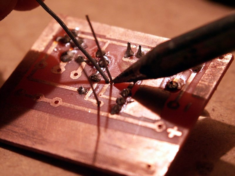 Soldering on PCB.